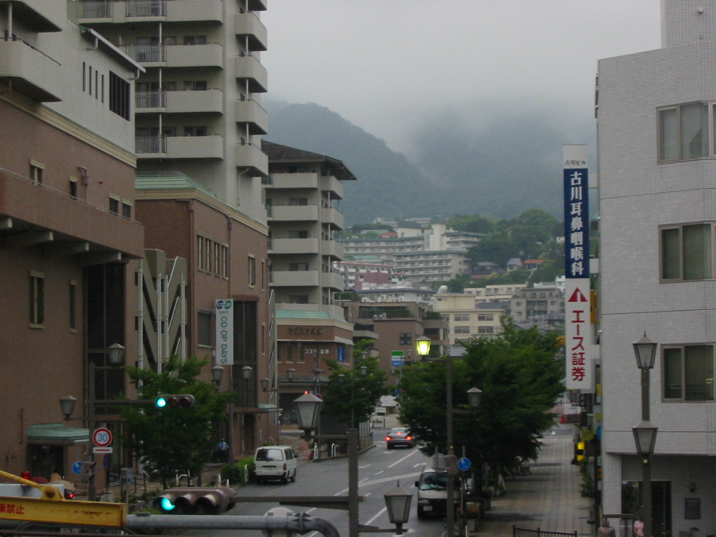 The city of Ashiya in Hyogo prefecture, seen from the mountains north of the city